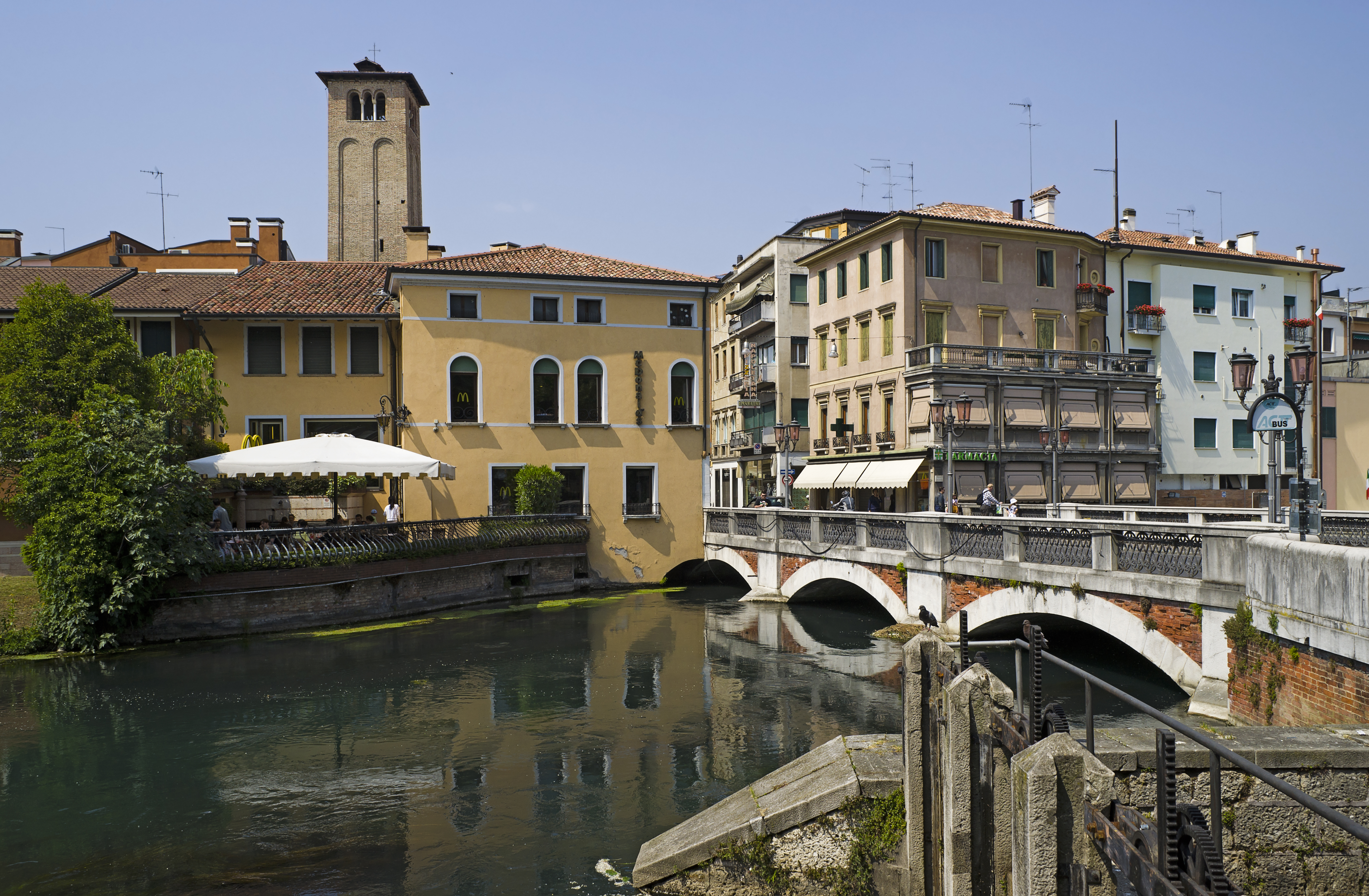 San Martino bridge on the Sile channel in Trevisio. Southern exposure.